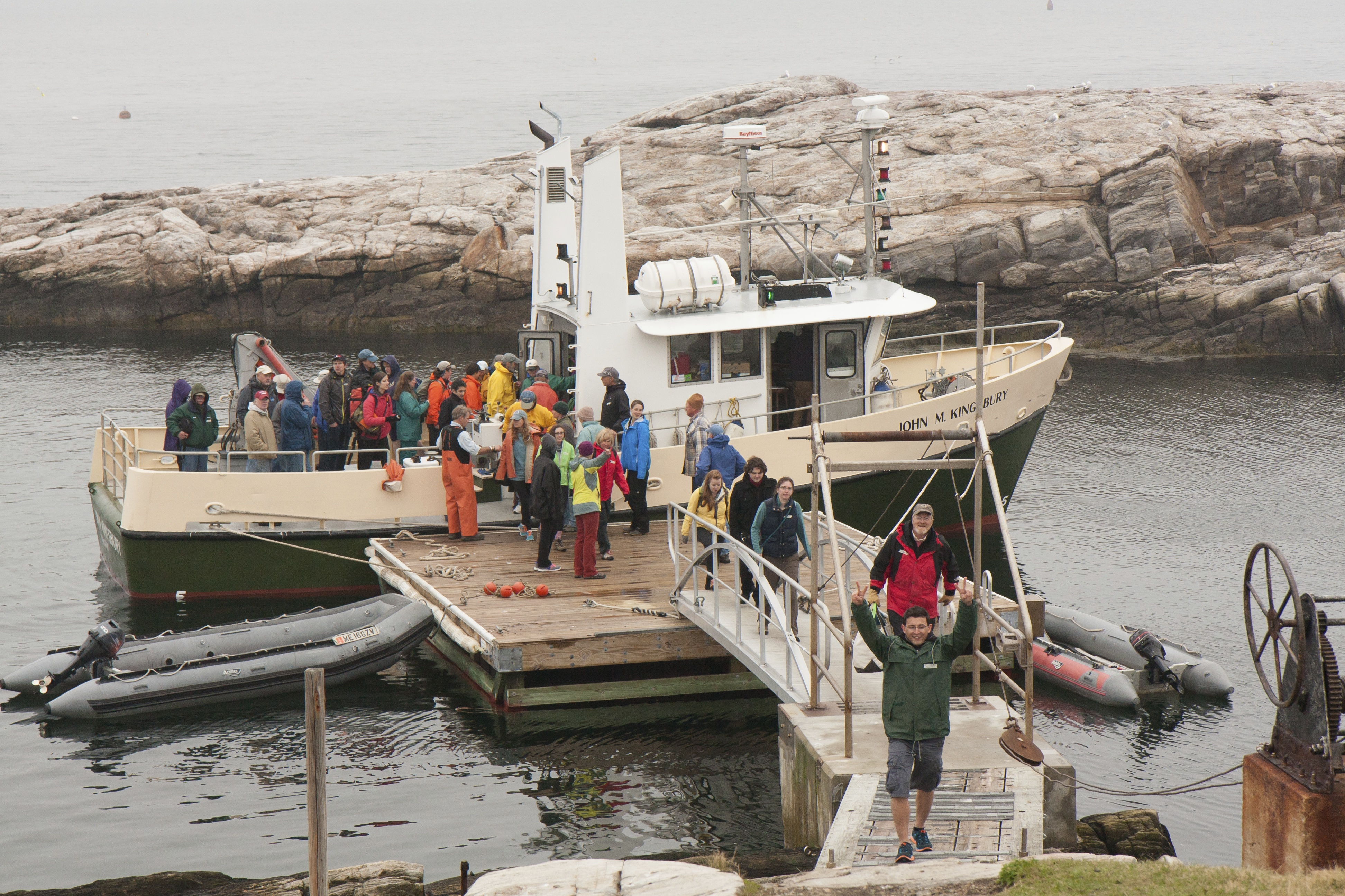 Volunteers disembarking from the R/V John M. Kingsbury which is at the low tide dock on Appledore Island.